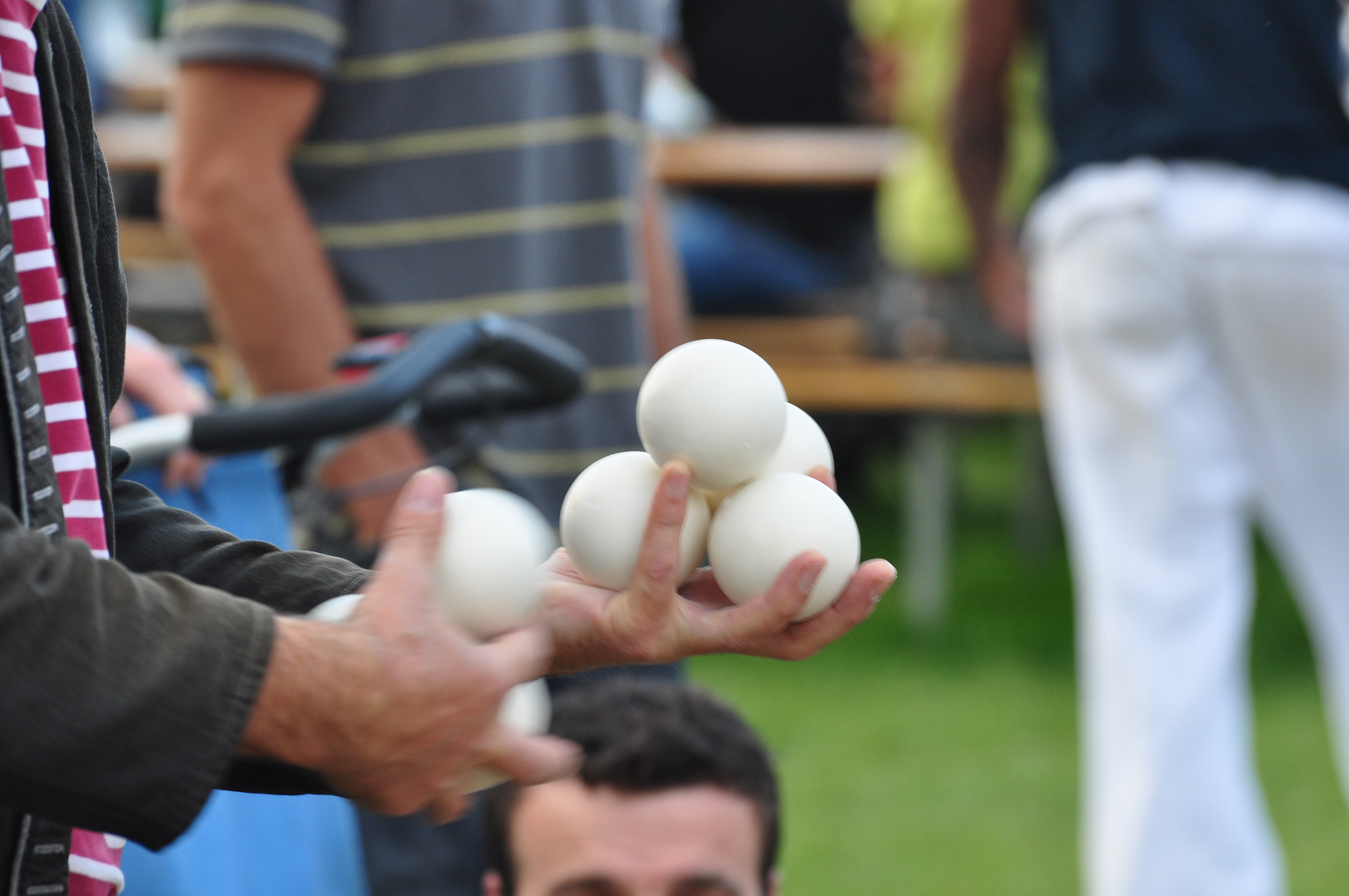 Theaterspektakel 2010 in Zürich-Wollishofen